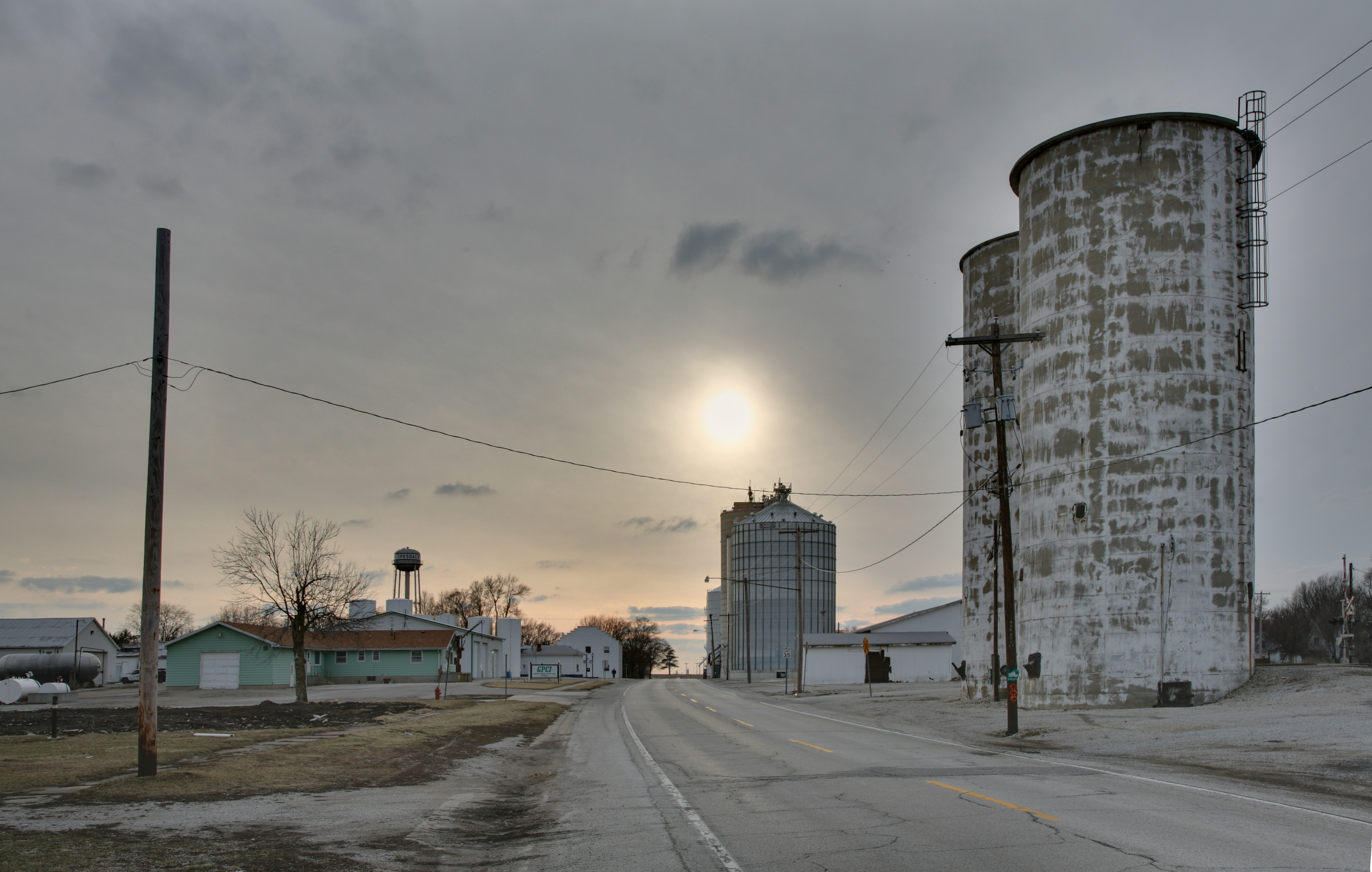 Ivesdale, Illinois, USA